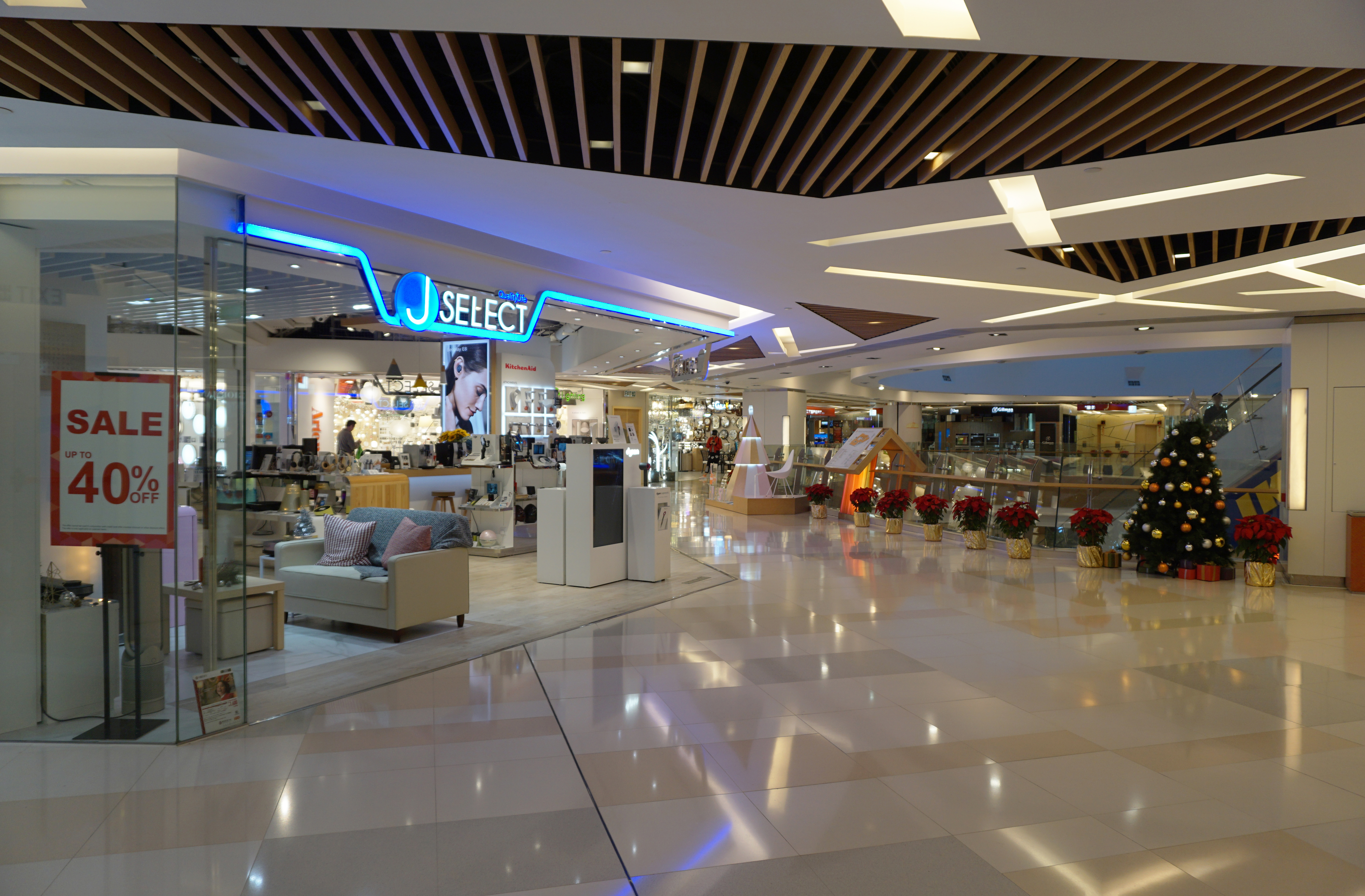 HomeSquare in Shatin, Hong Kong.